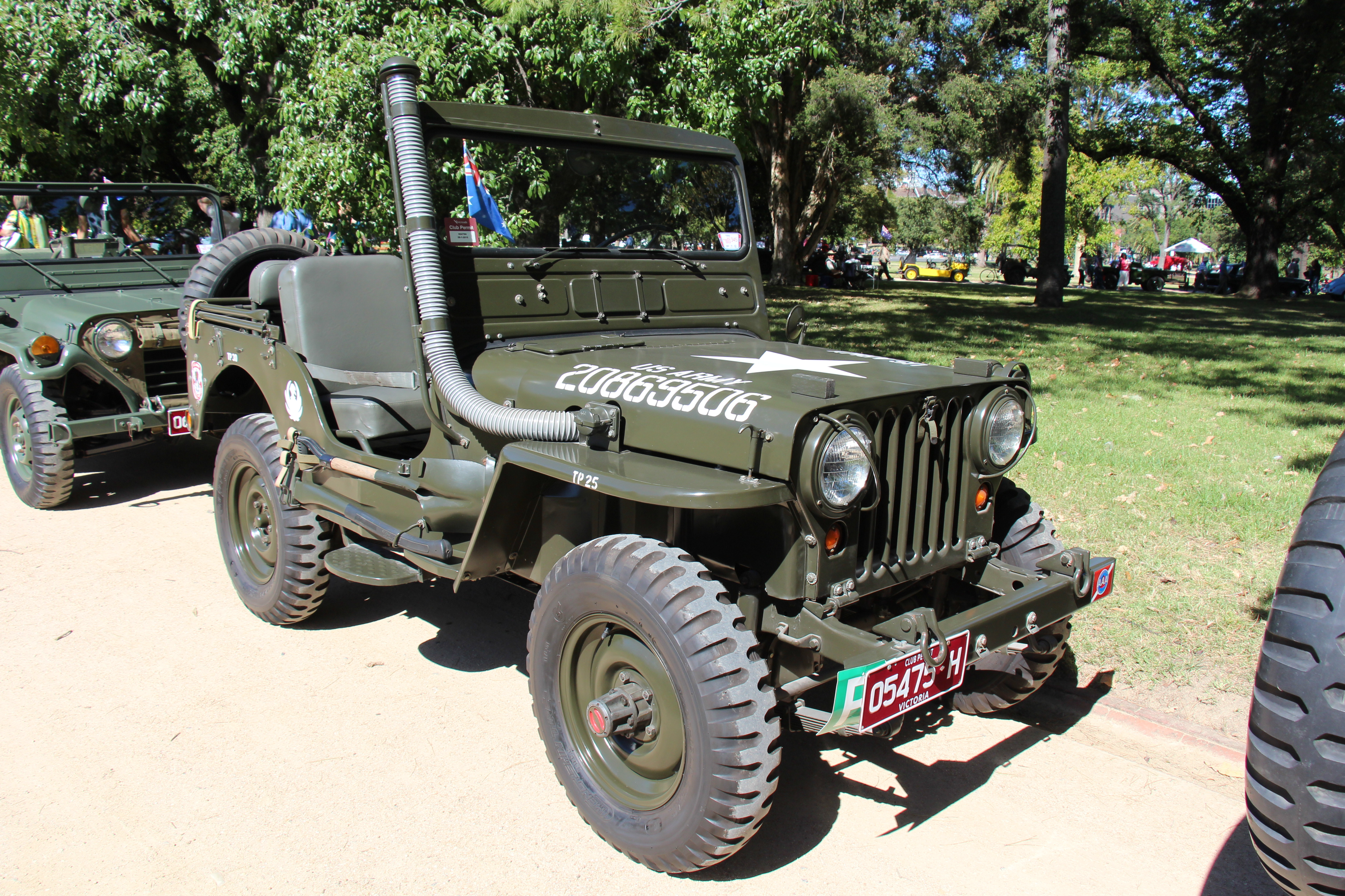 The CJ Jeep (Civilian Jeep) is a public version of the famous Willys Military Jeep from World War II, they were produced from 1944-86, when they were replaced by the Wrangler. The CJ-1 and CJ-2 are very rare, but are pretty much a civillian version of the MB, but built with a tailgate and canvas top. The 1st mass produced CJ was the 1945-49 CJ-2a, differences were; the MB had recessed headlights and 9 slot grilles while the CJ-2A had larger headlights flush-mounted in a 7 slot grille. The 1949-53 CJ-3a saw only minor updates, a 1 piece windshield with a vent as well as wipers at the bottom, the CJ-2a had a split screen. Engine; 134 cu in Go Devil I4 (still the same from the MB)